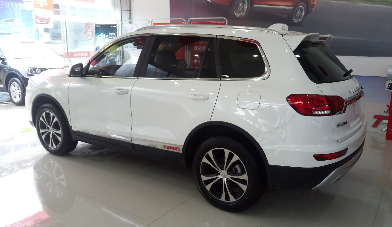 Yema T80 photographed in Wuhan, Hubei province, China.